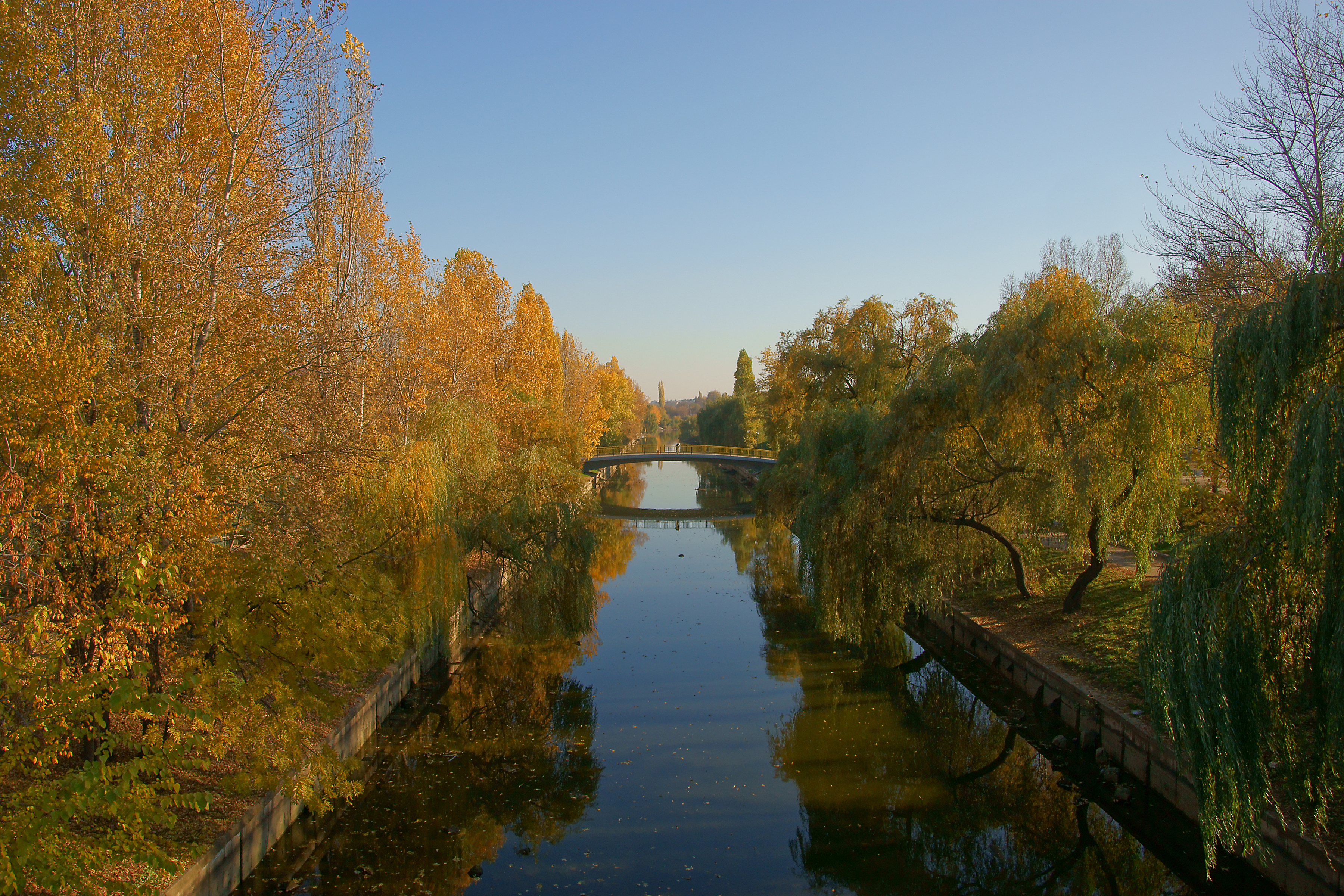 Colentina river seen from the Colentina bridge, looking westwards.